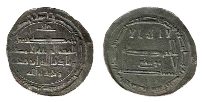 Aghlabid dirham (silver), minted in Kairouan in 202 AH / 817 AD during the reign of the Aghlabid emir Ziyadat Allah I (= Ziyadat Allah ibn Ibrahim) (201-223 AH / 816-832 AD)